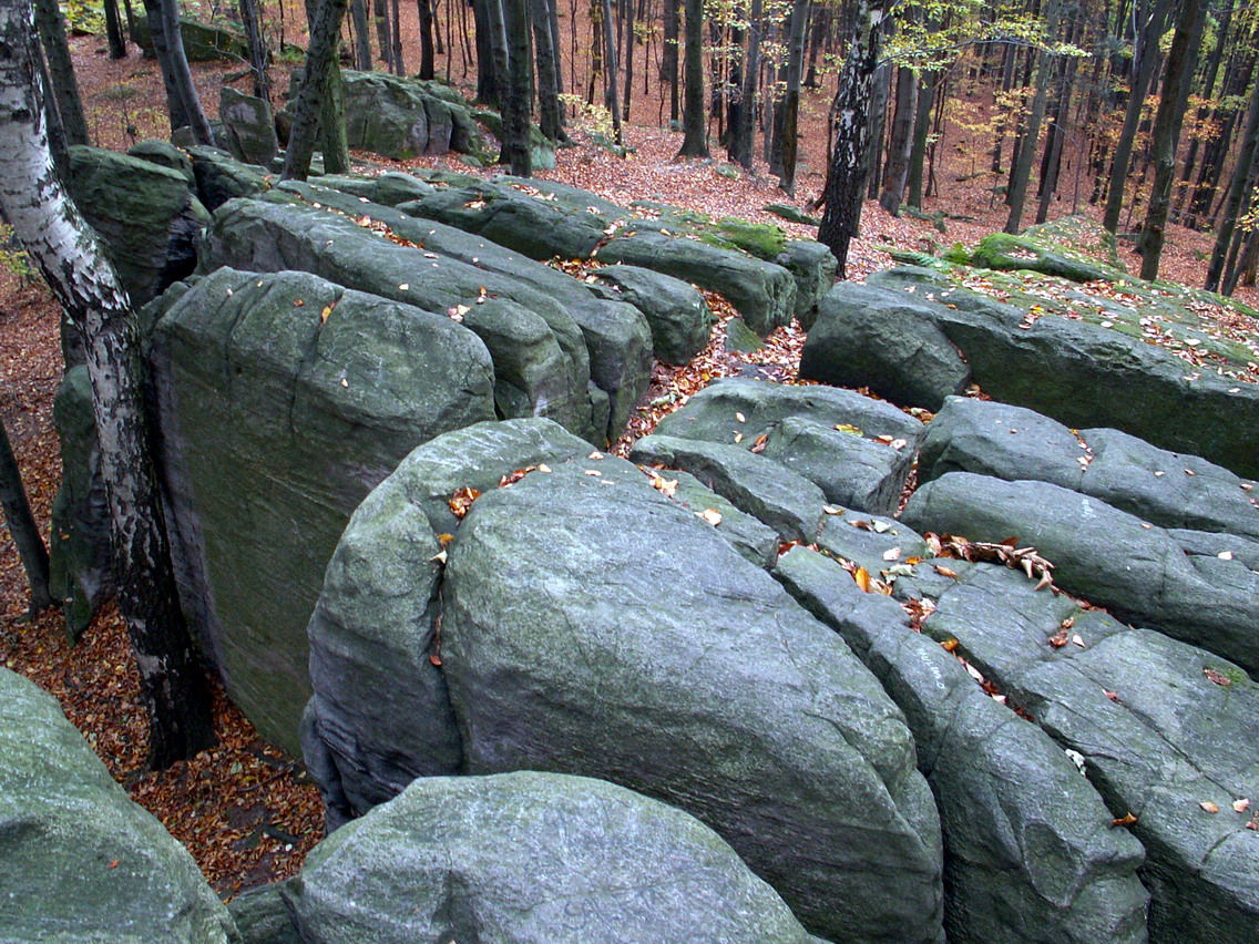 Rocks on the top of Bukowa Góra in Świętokrzyskie Mountains (Poland)